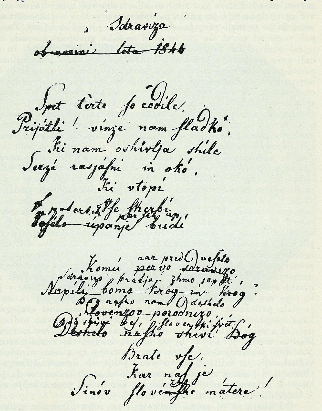 Fragment of the "Zdravlica", handwriting, bohoričica